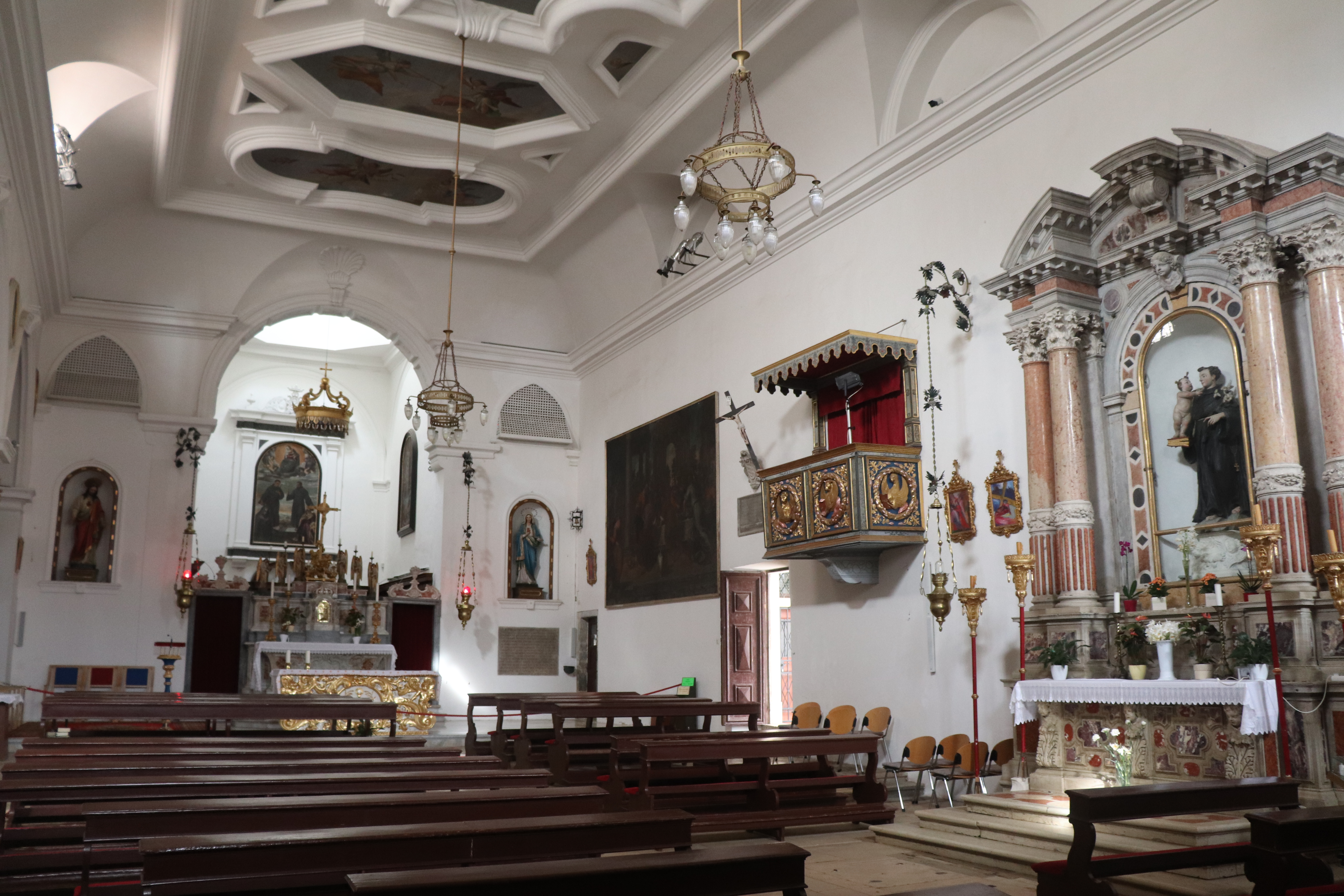 Piran - St. Francis of Assisi church